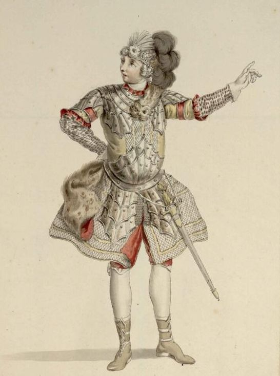 Arminio by [Johann Adolf Hasse] (staged Dresden 1753) Costume designs by Francesco Ponte (b. 1725) - Varo (sung by Giuseppe Belli (Soprankastrat)) fig. 5 of 7 (+title page)